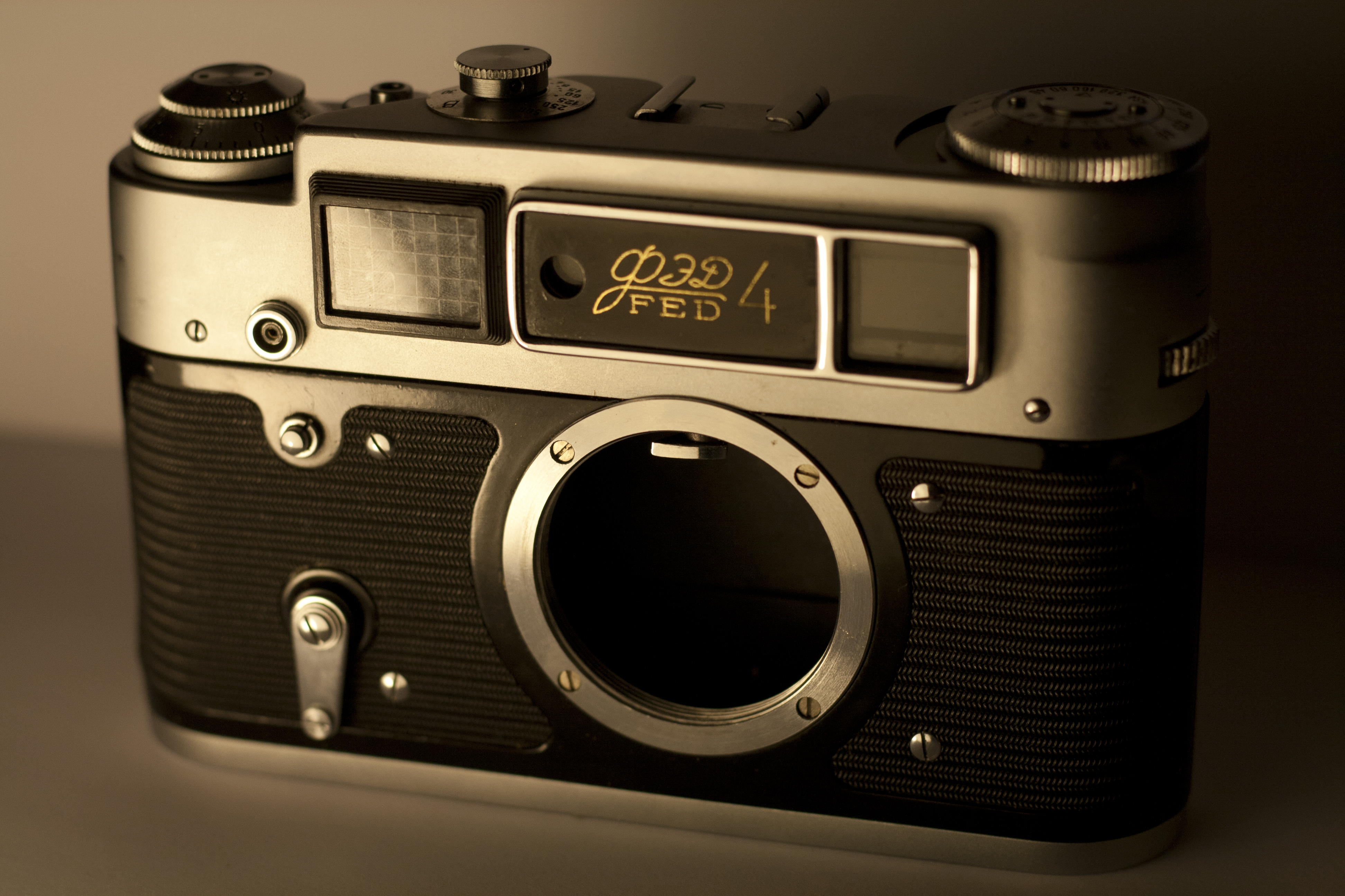 The front of the FED 4, showing the M39 (39mm) threaded lens mount.